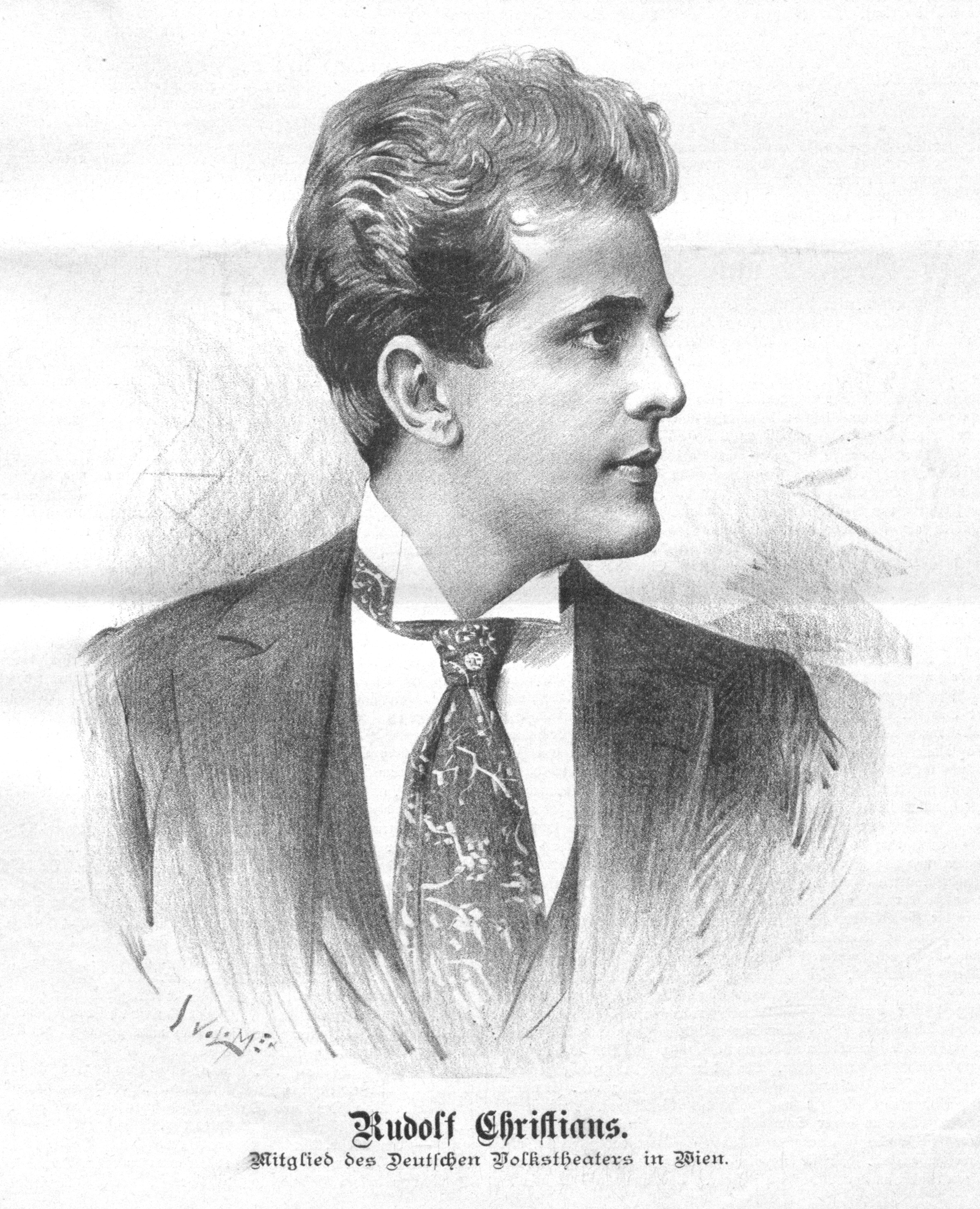 Portrait of Rudolf Christians (1869-1921), German actor.